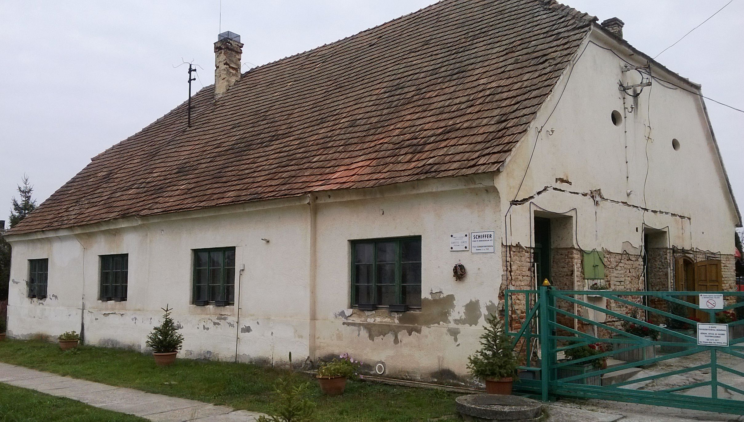 The house John Xantus de Vesey (1825–1894) was born in in Erdőcsokonya (Csokonyavisonta)